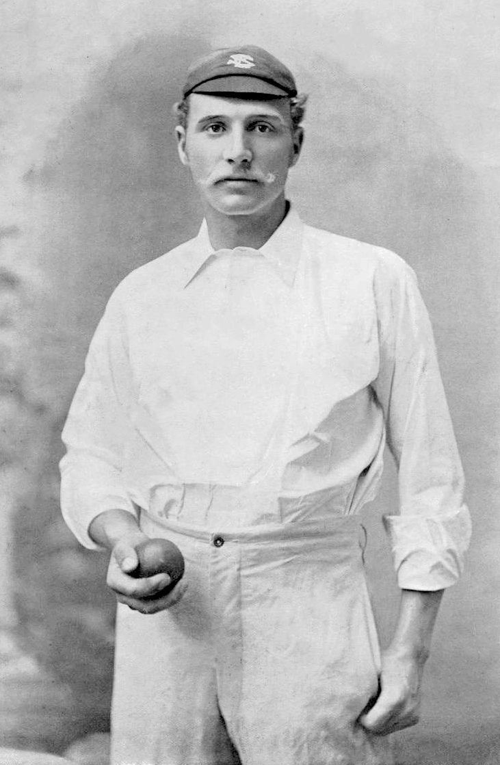 Original Famous Cricketers, #006 George Lohmann, Surrey, Cricket 1895